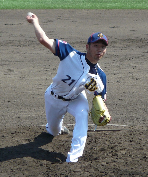 OB-Takuya-Kai20100605